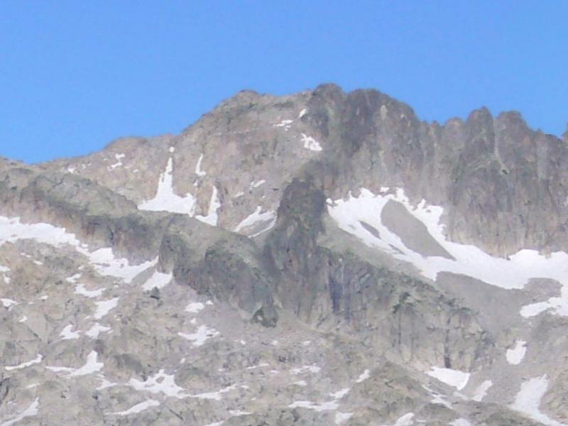 Besiberri del Mig (East face), la Vall de Boí, Alta Ribagorça, Catalonia